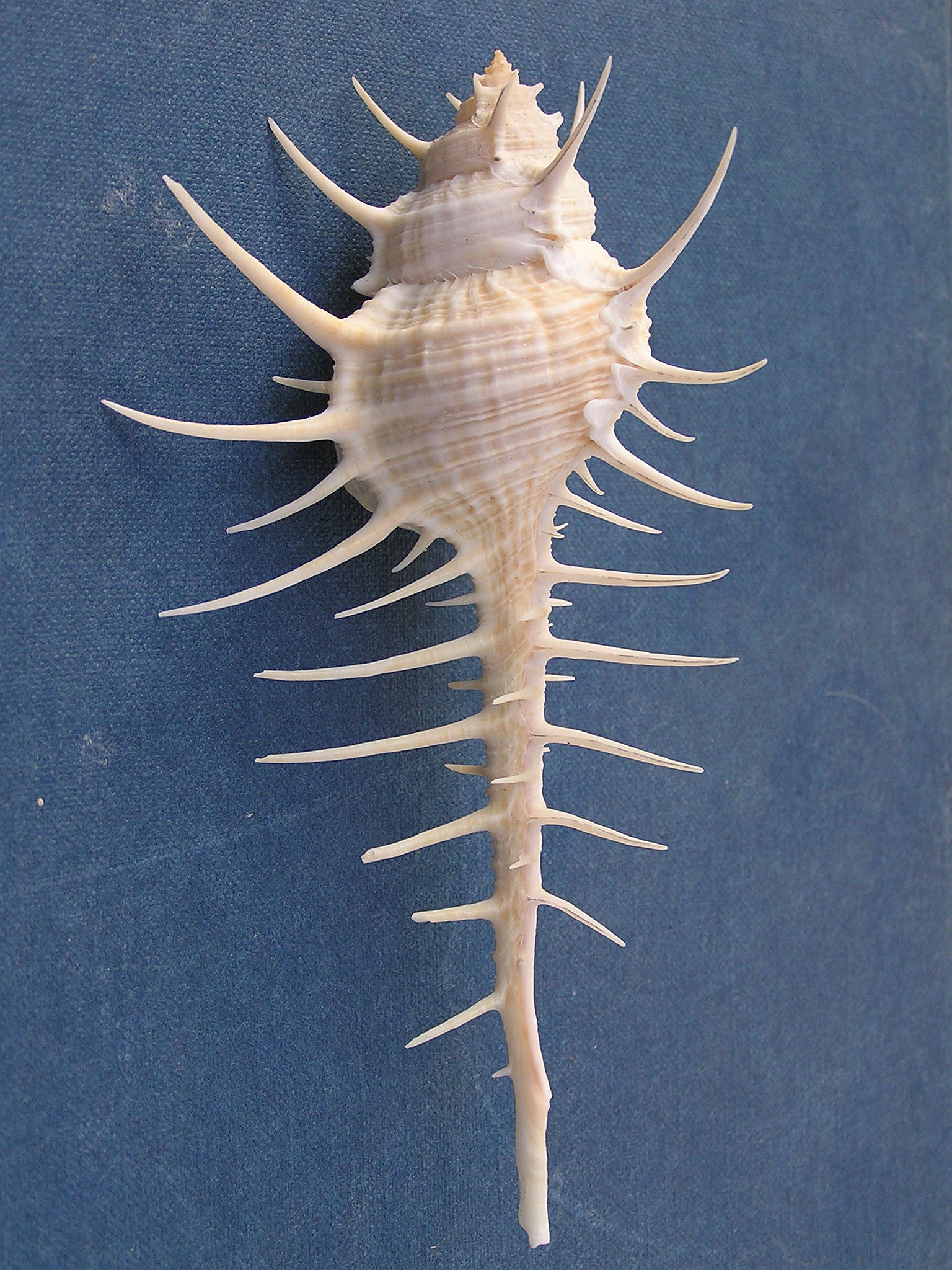 Murex altispira Ponder & Vokes, 1988 , a murex snail from the family Muricidae; Philippines